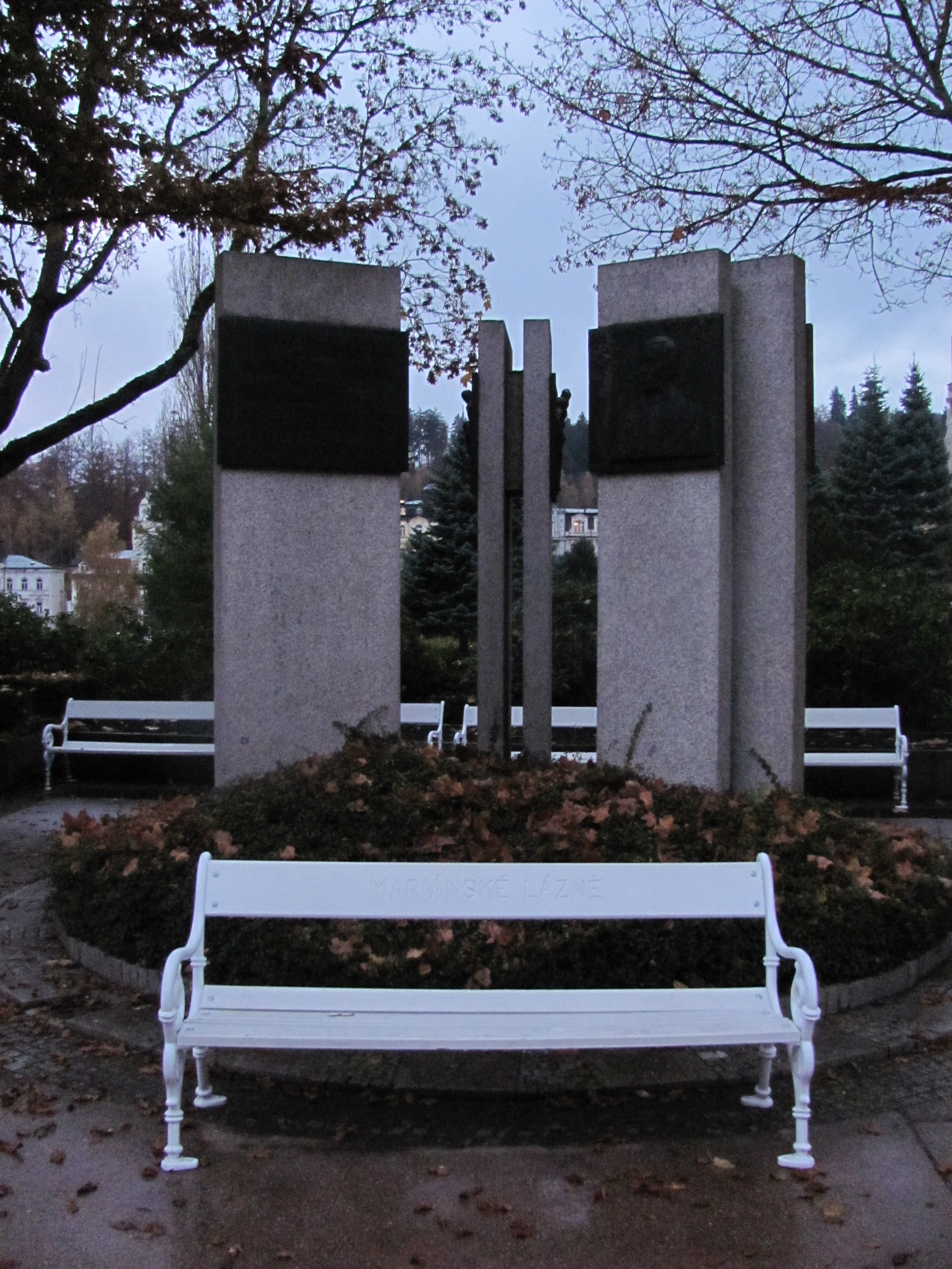 Václav Skalník memorial at Mariánské Lázně colonnade.